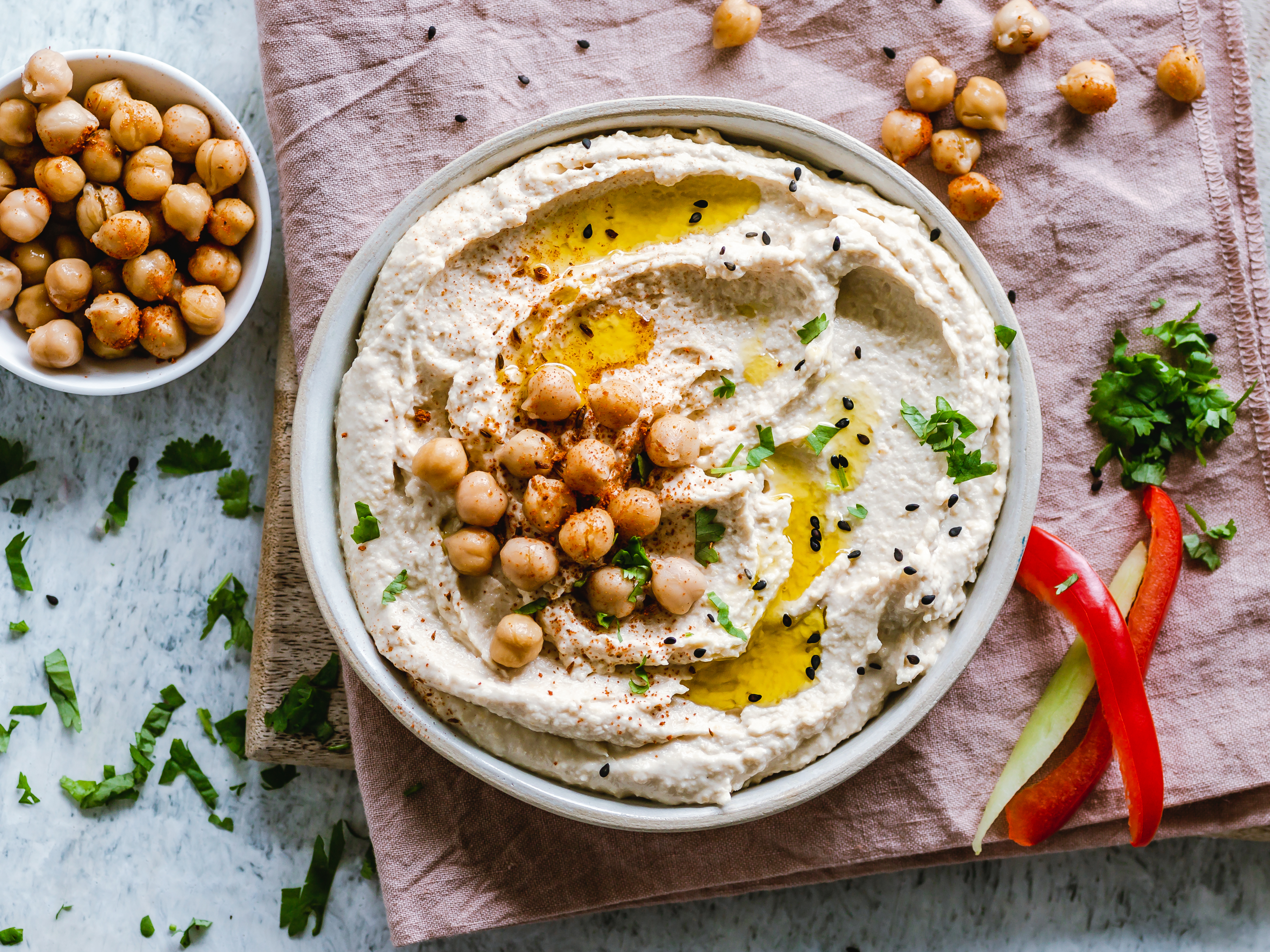 Hummus dish with parsley, olive oil and black sesame seeds. The dish is presented with chickpeas, slices of red bell pepper and parsley.